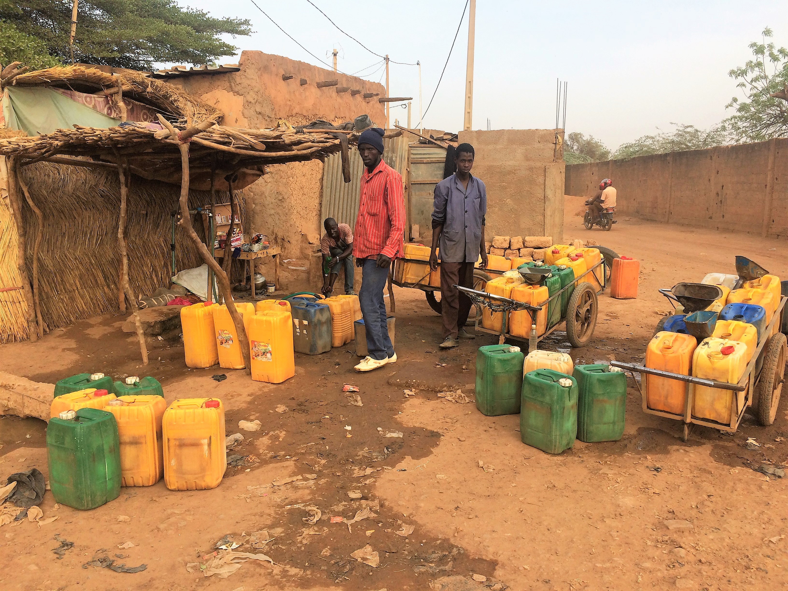 Two men are filling jerrycans with water for distrubtion in the Taladje neighborhood in Niamey, Niger (on the crosing of Rue TJ-6 and TJ-3). This is the typical way of water distribution in Niger in areas without adequate water supply.